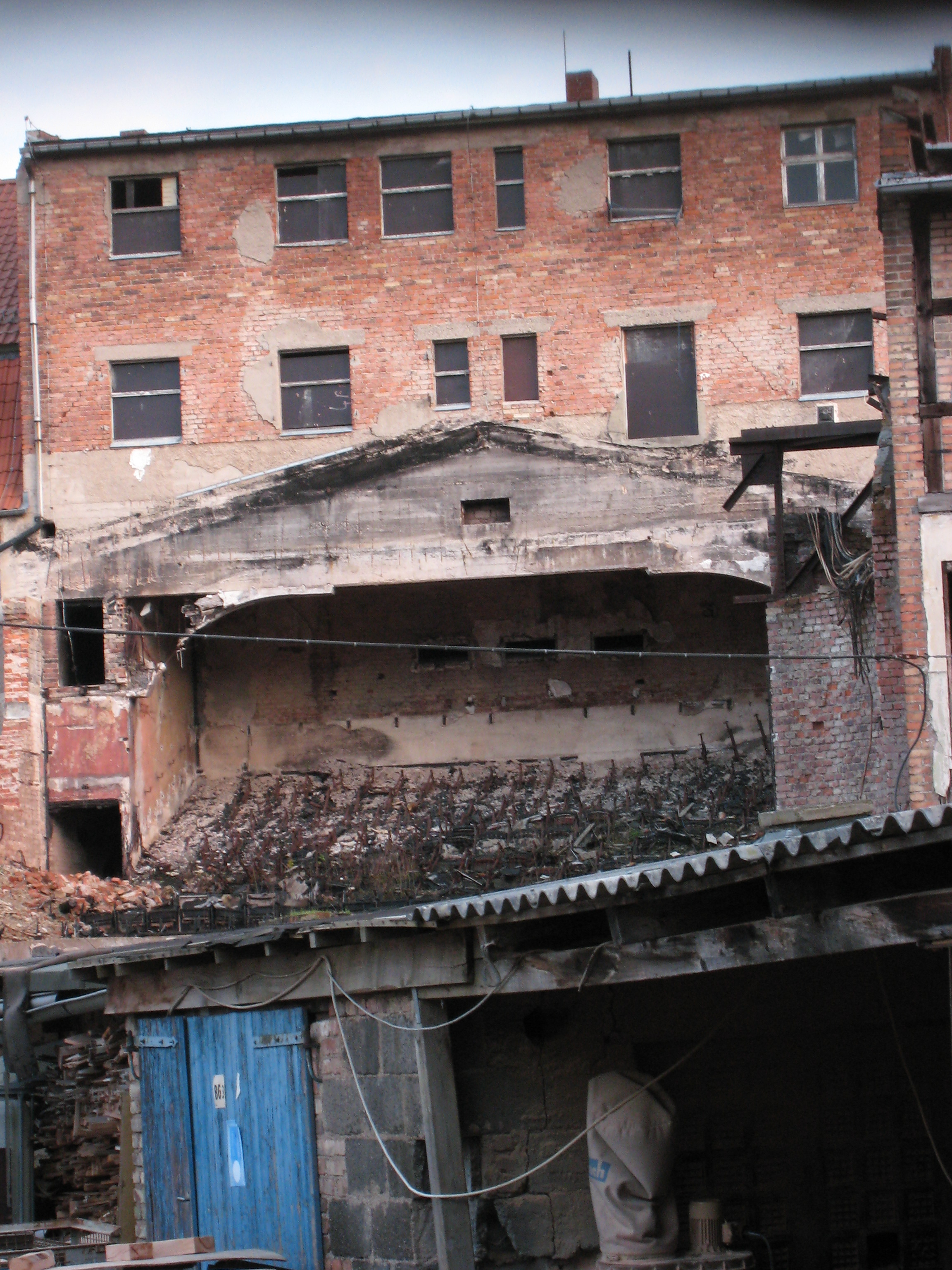 Merkur cinema Arnstadt, backside